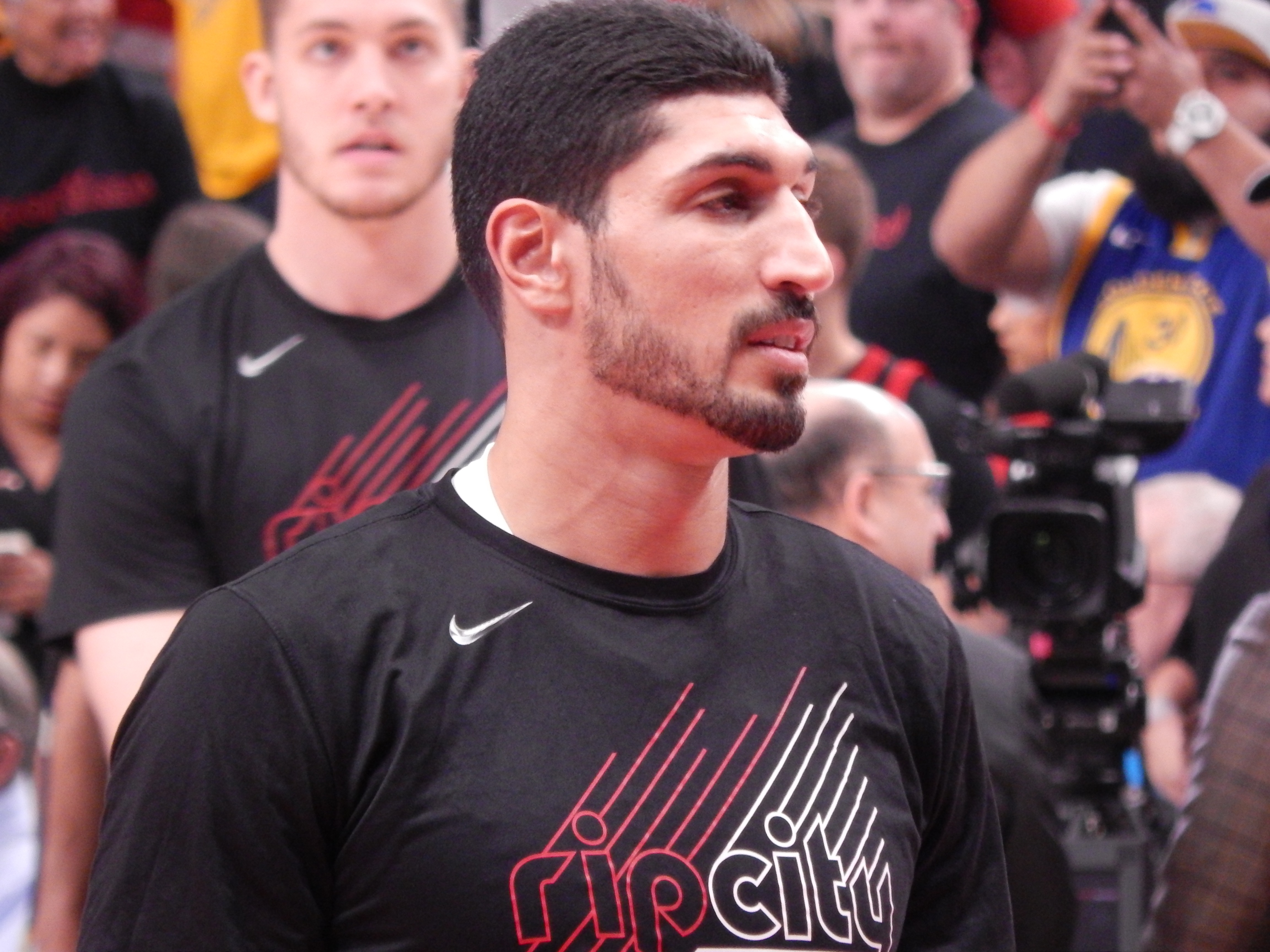 Enes Kanter #00 of the Portland Trail Blazers warms up before the game against the Golden State Warriors on May 18, 2019 at Moda Center in Portland, Oregon.